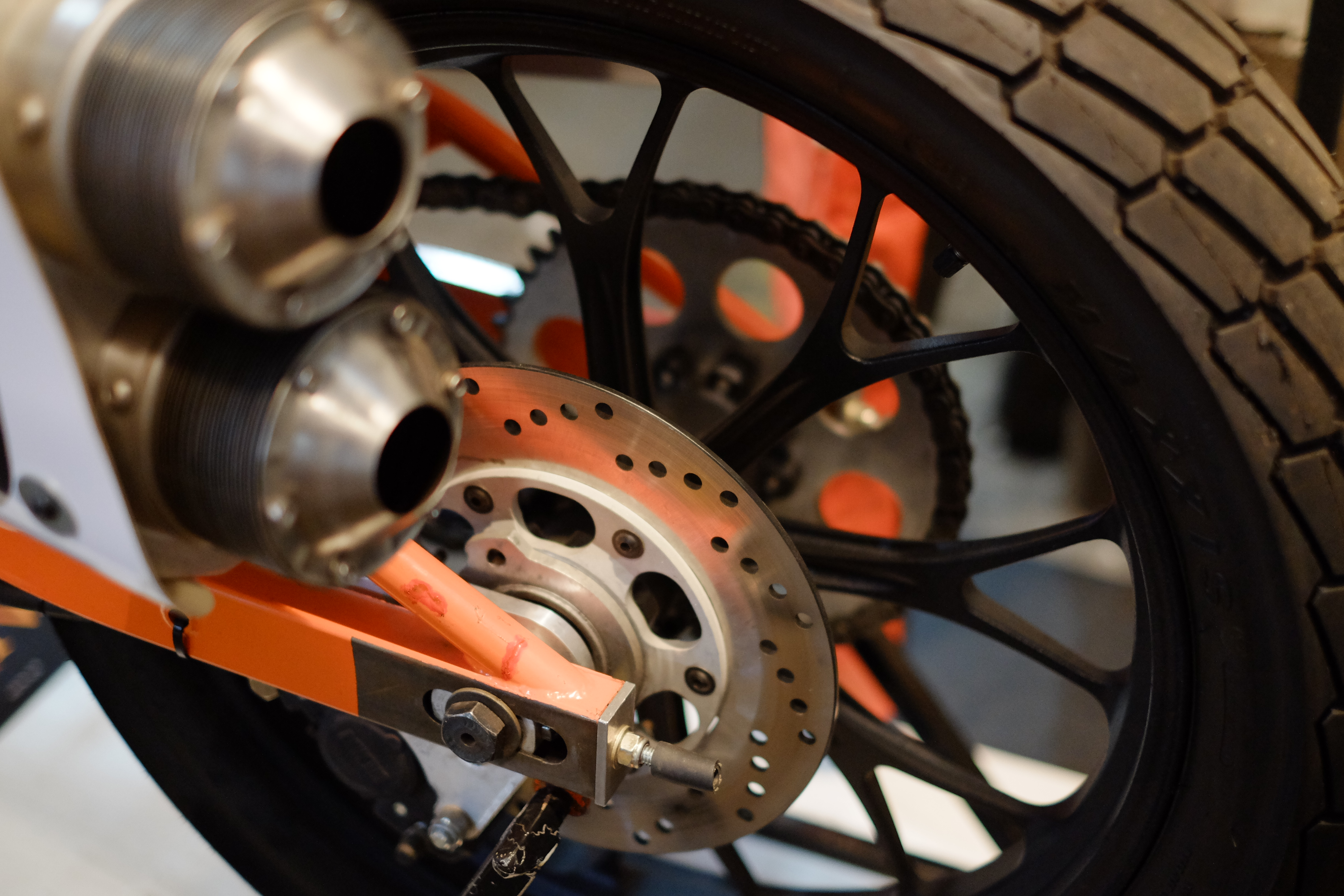 Team Latus Harley-Davidson XR-750 at The One Motorcycle Show, Portland, Oregon.